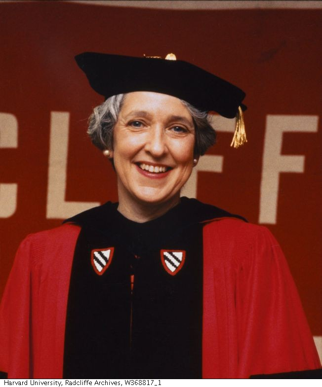 misc/via